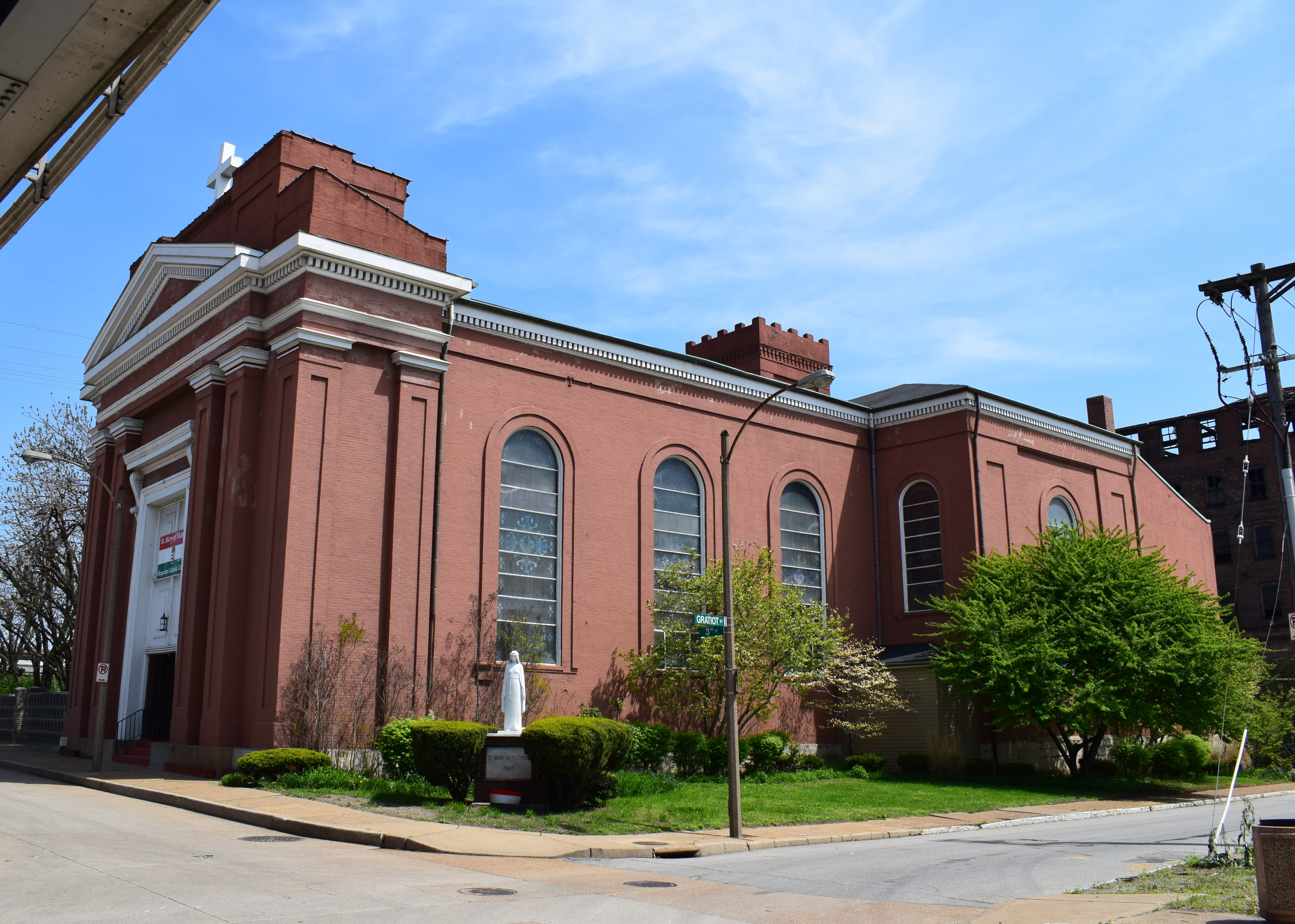 Saint Mary of Victories Church (St. Louis, MO) - exterior